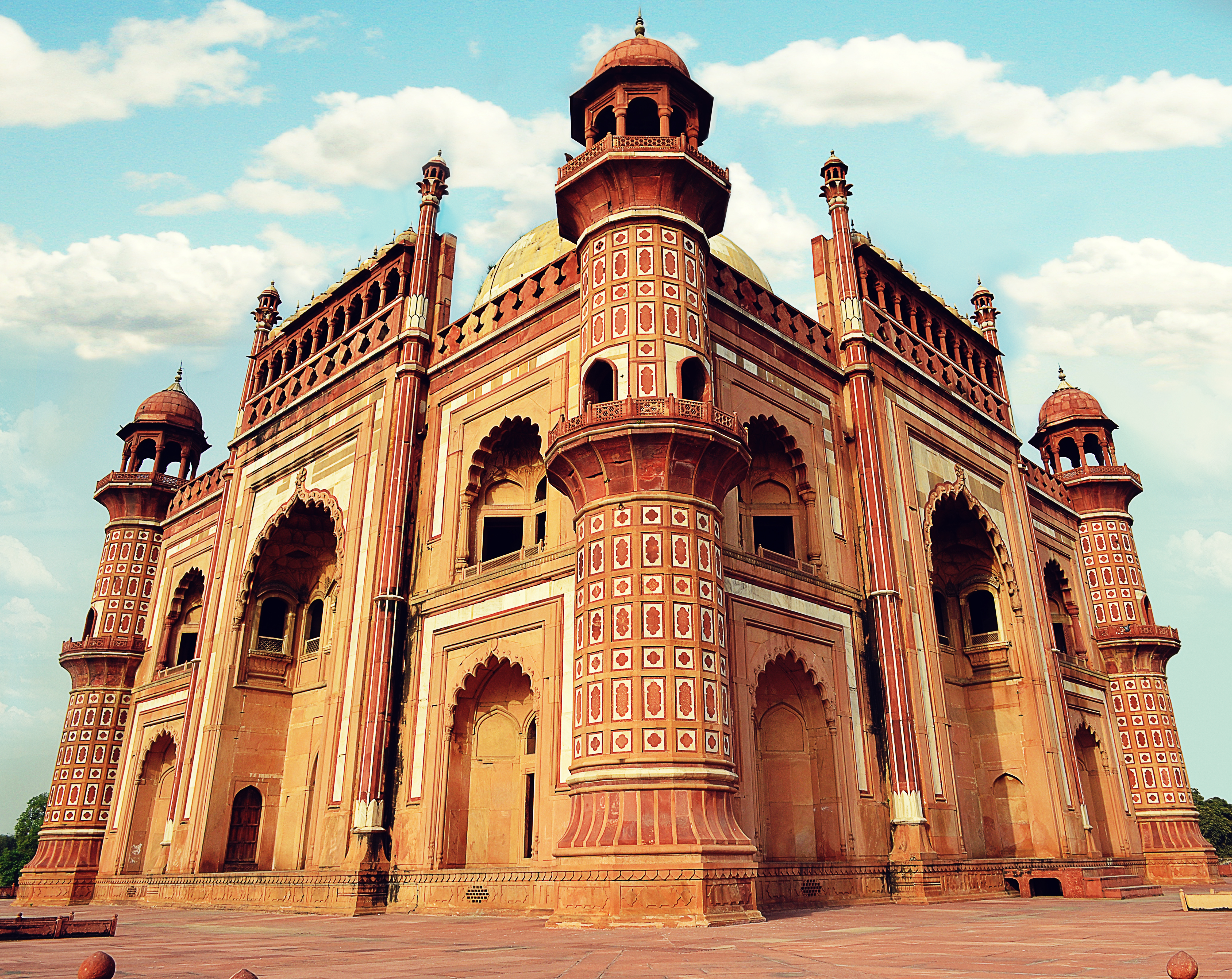 Patiently waited for the perfect shot! Built in 1753-1754, the Safdarjung tomb lies at the Lodi road, New Delhi. It was was built by Nawab Shuja-ud-Daulah, the son of Safdarjung.